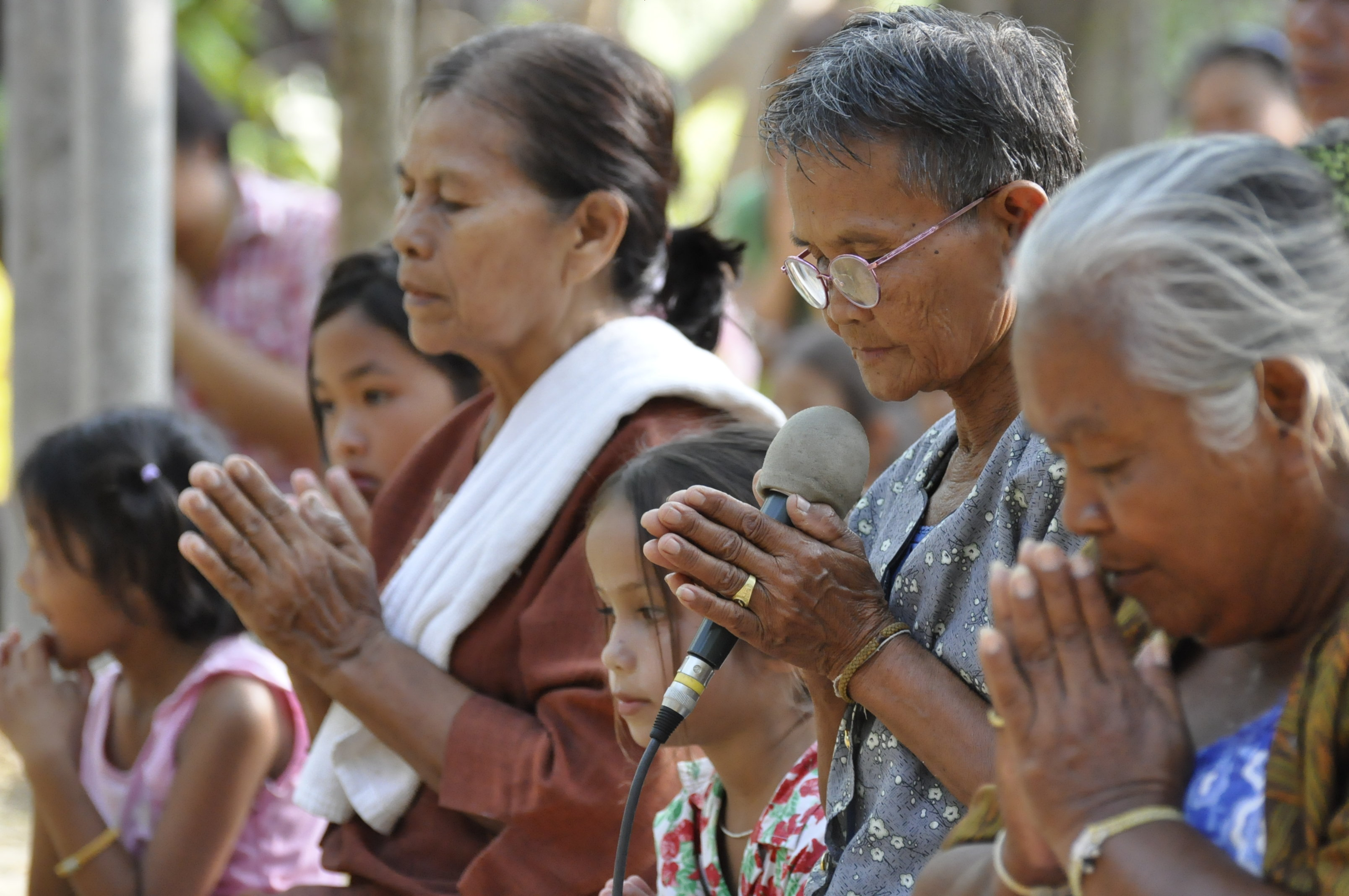 A group of people performing wais.